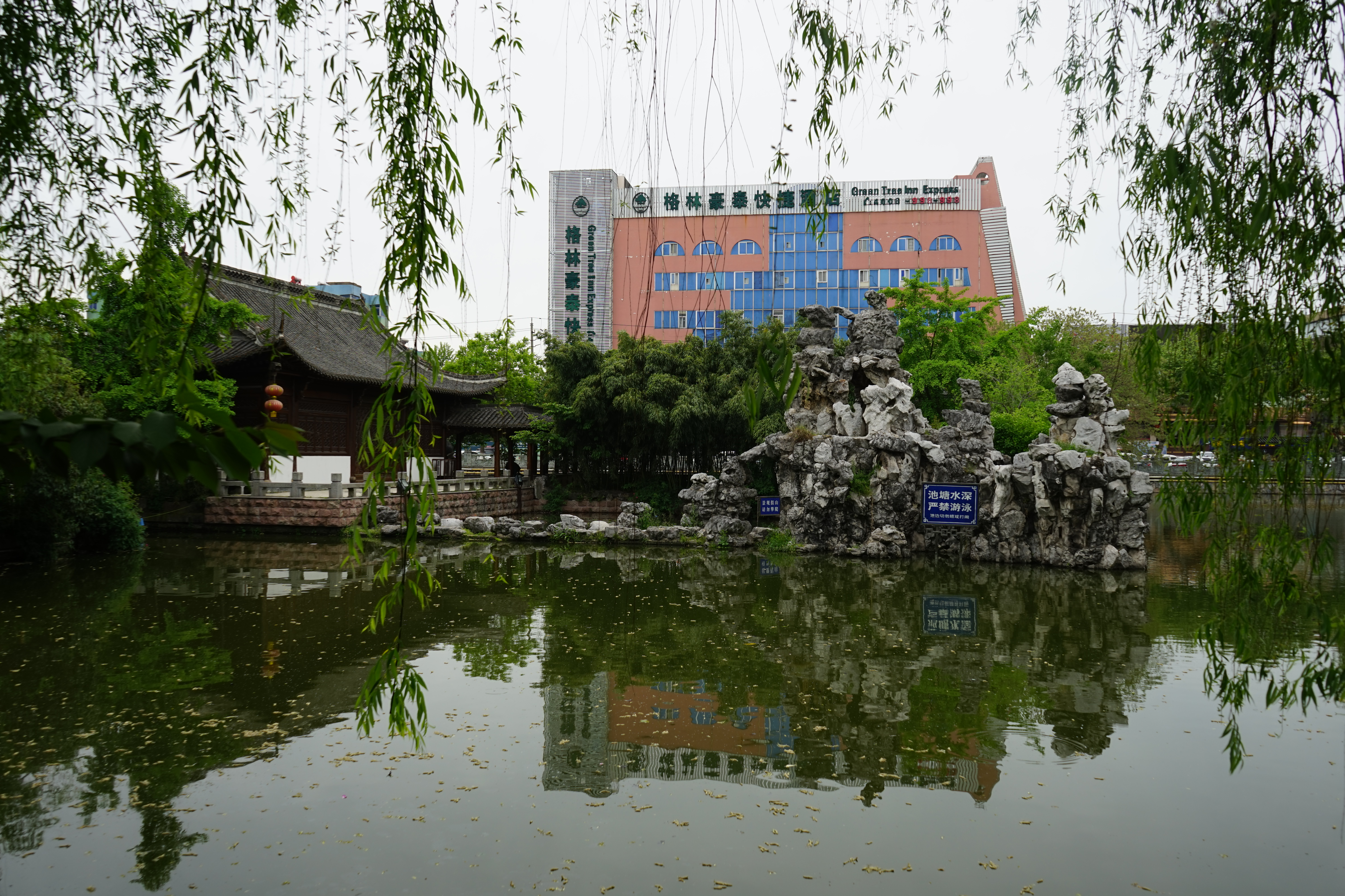 Lutous Pool in Bamboo Forest, Zongzhuo Garden, Baoying County